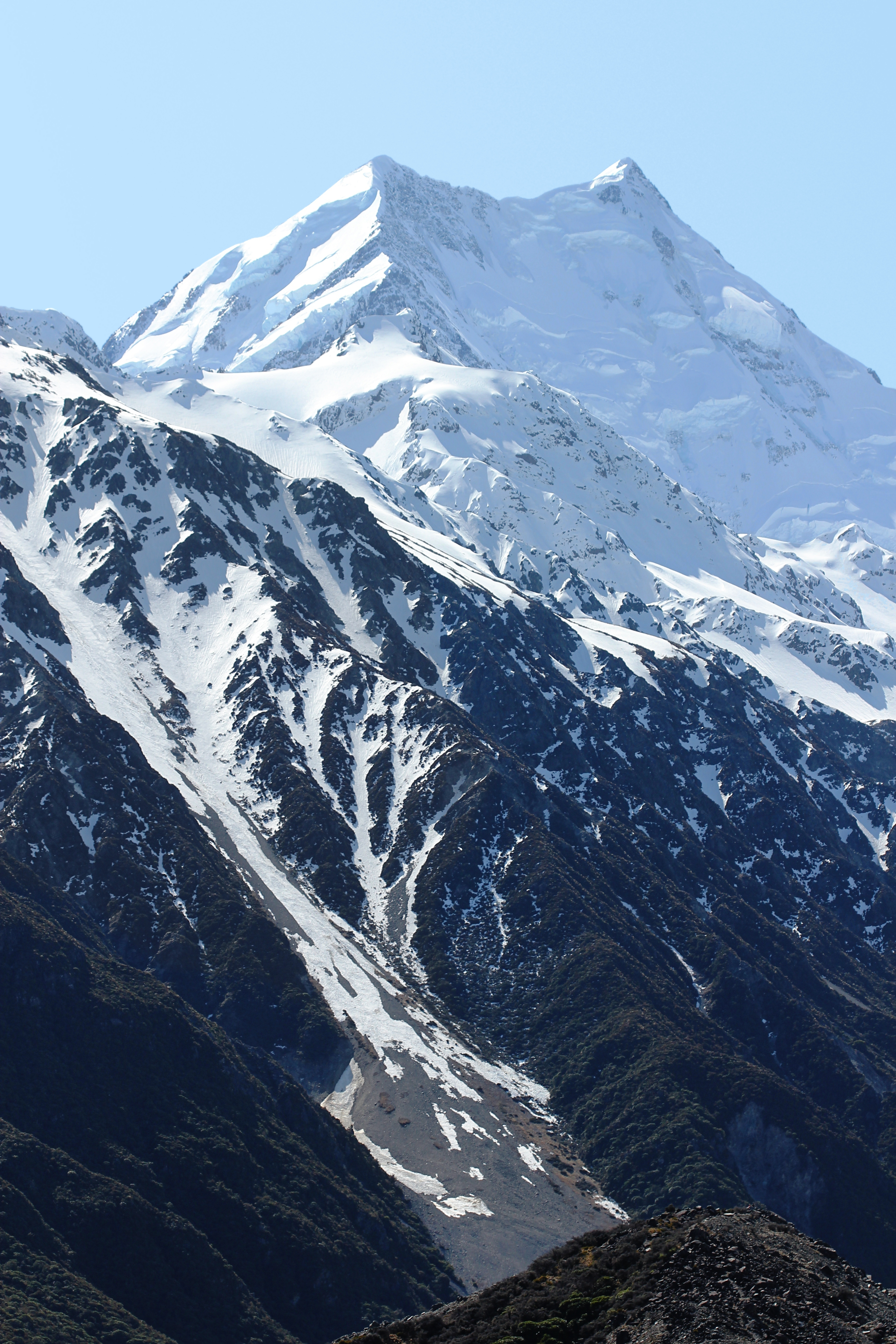 Aoraki/Mount Cook, New Zealand's highest mountain, seen from the outlet of Tasman Lake.